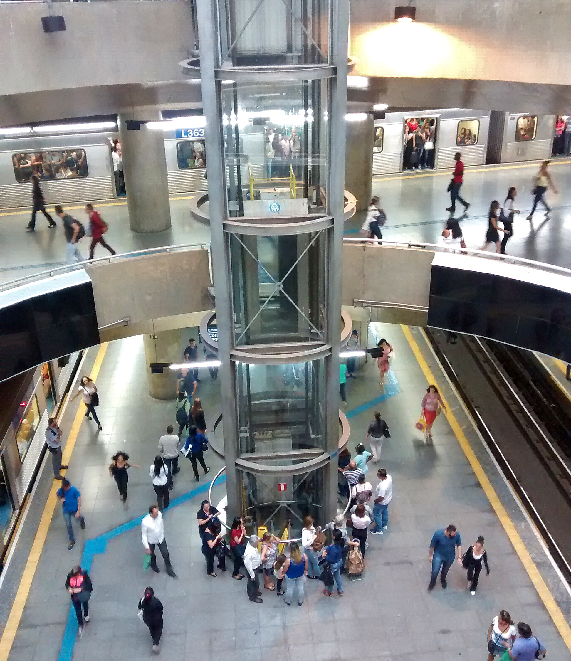 A station of San Paolo metro